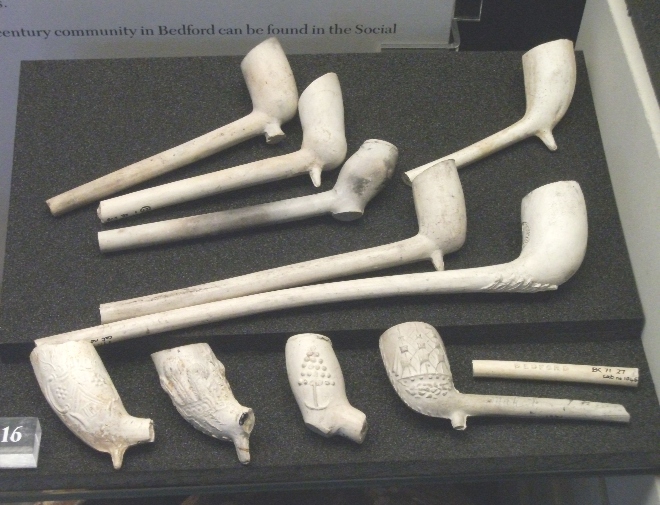 A group of clay pipes, from the early 17th to late 19th century, on display in Bedford Museum.